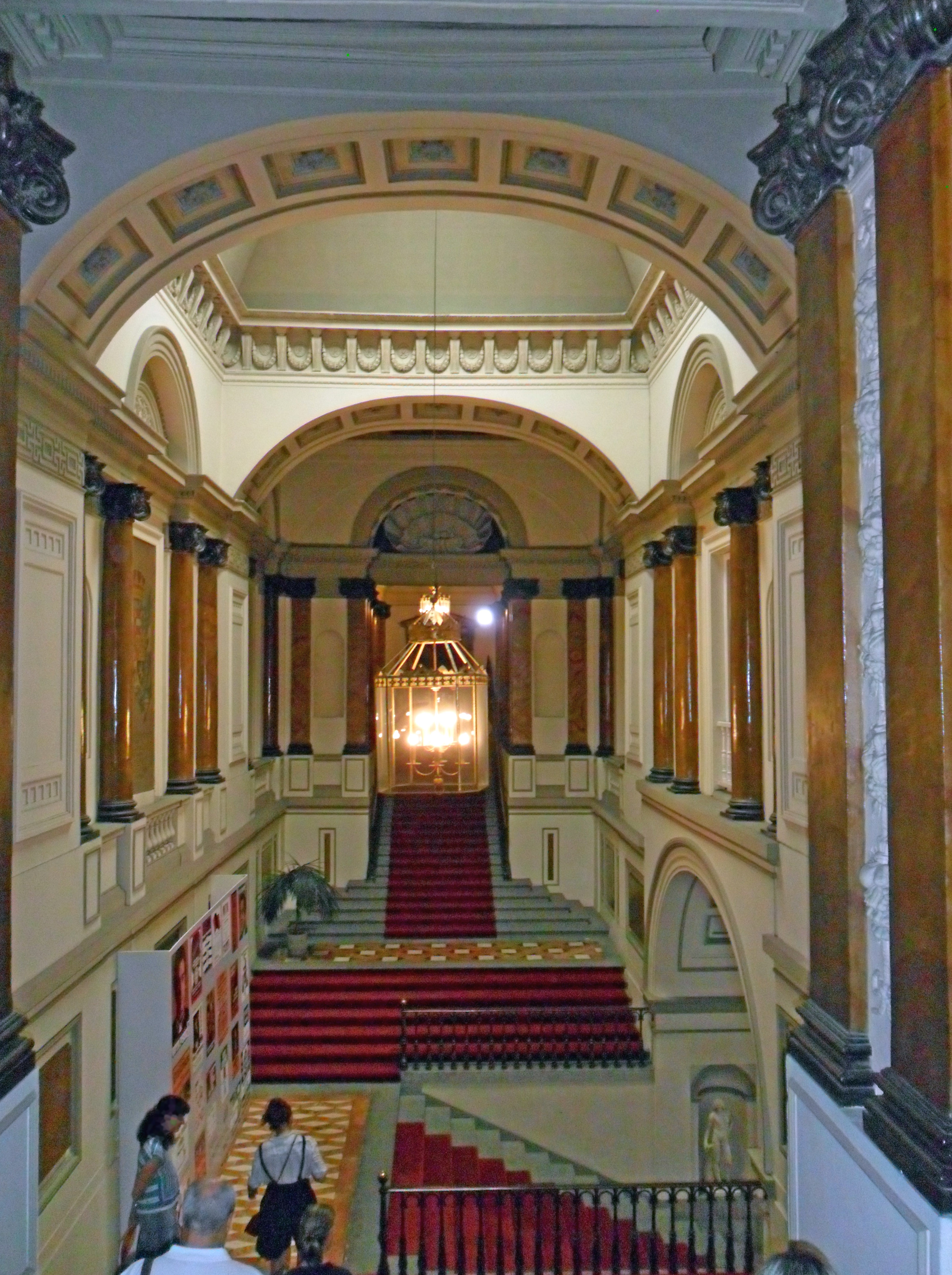 Interior of the former Mansion of the Marquis of Grimaldi in Madrid (Spain). Staircase designed by Jean Démosthène Dugourc towards 1800.